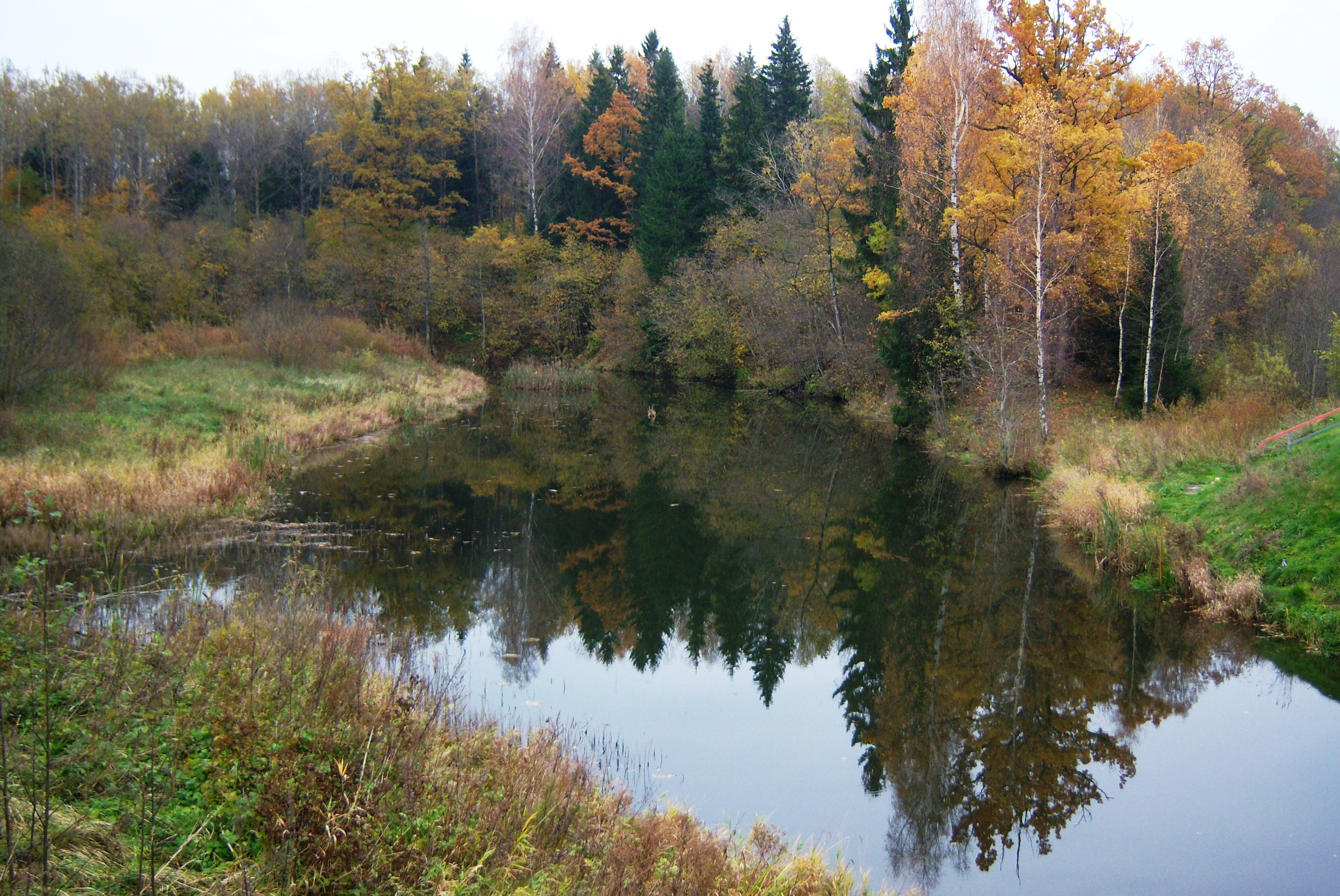 Bartuva River by the road KK169 near Skuodas, Lithuania